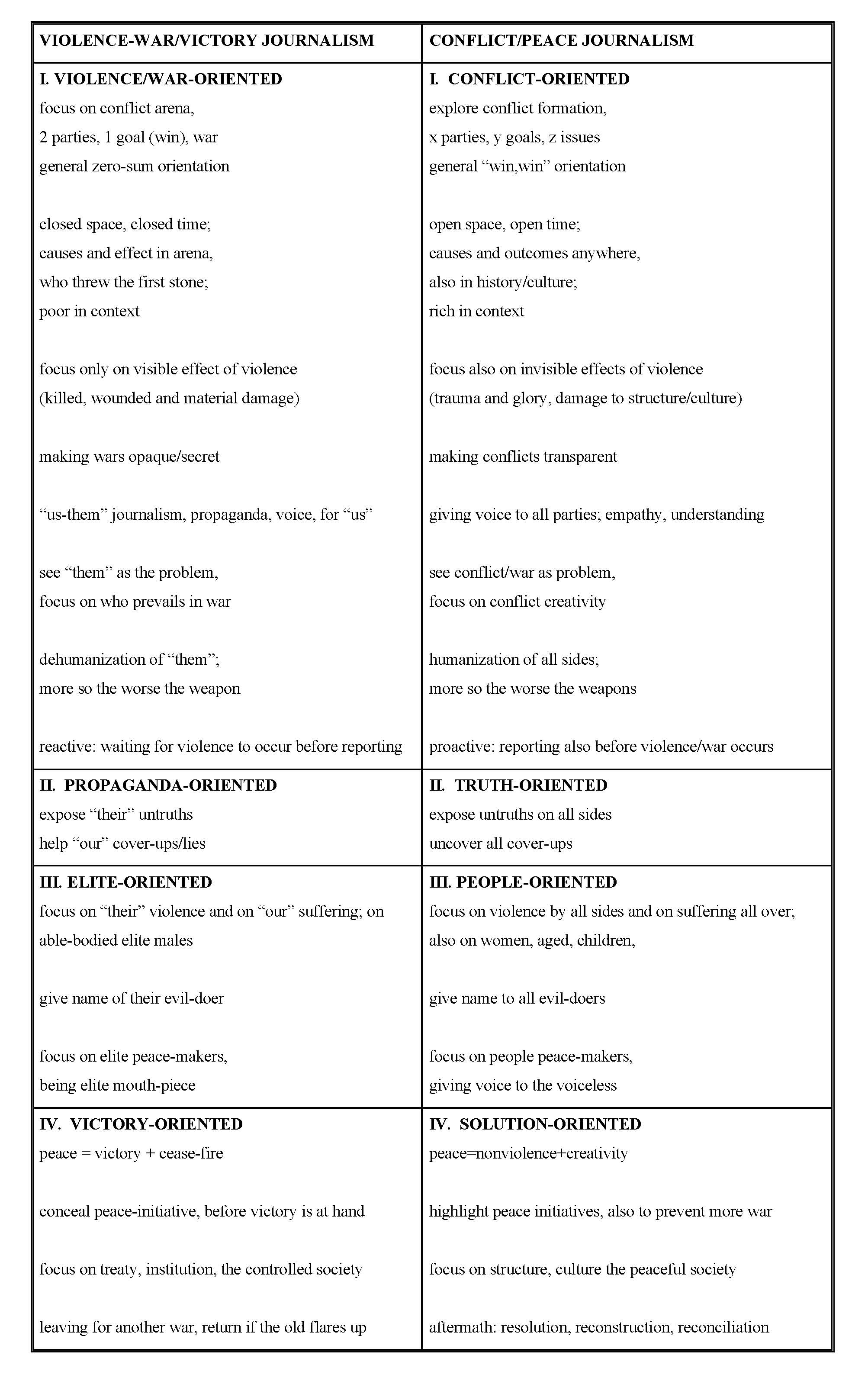 A comparison of peace journalism and war journalism